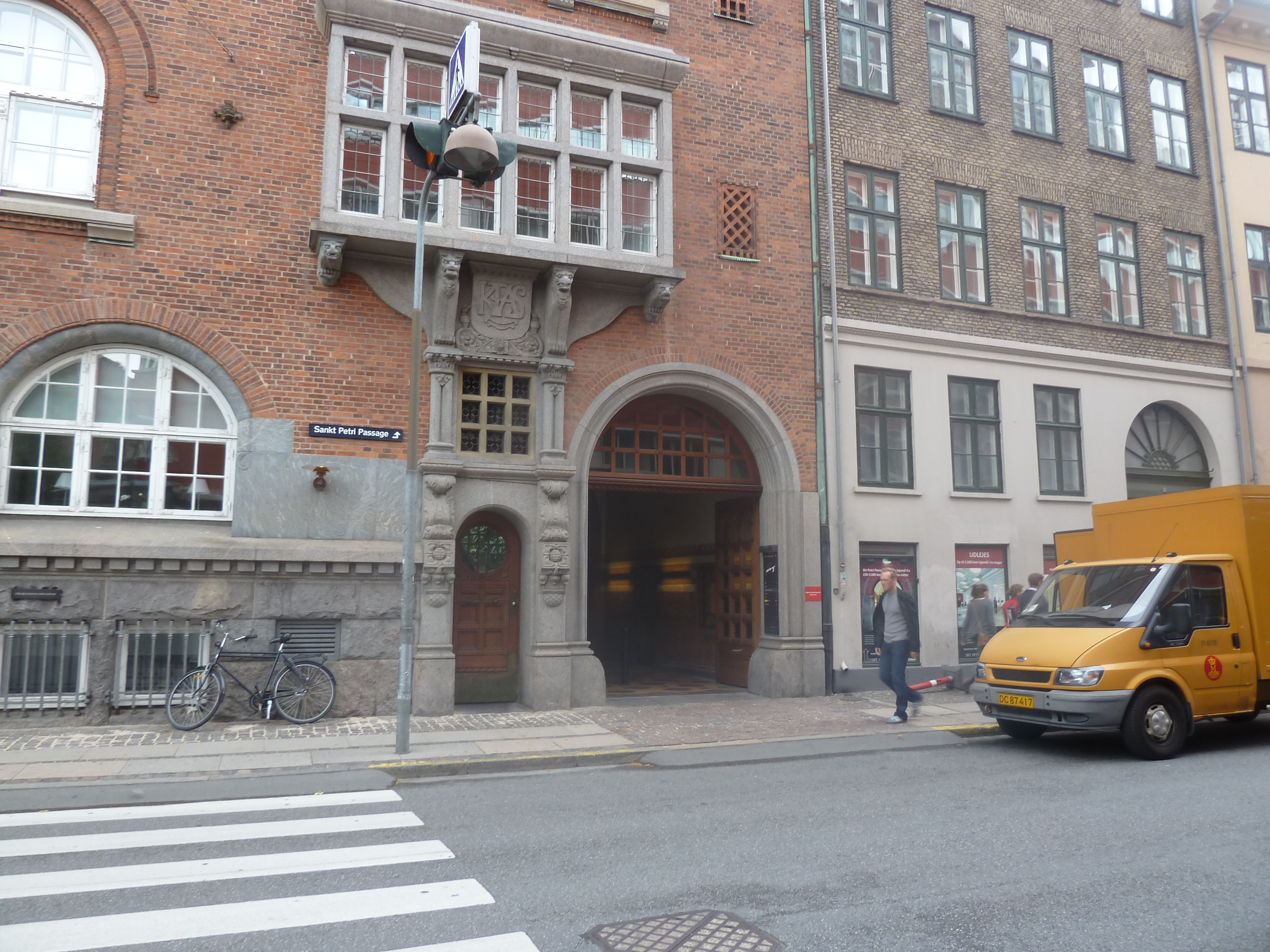 The passageway Sankt Petri Passage in Indre By in Copenhagen.